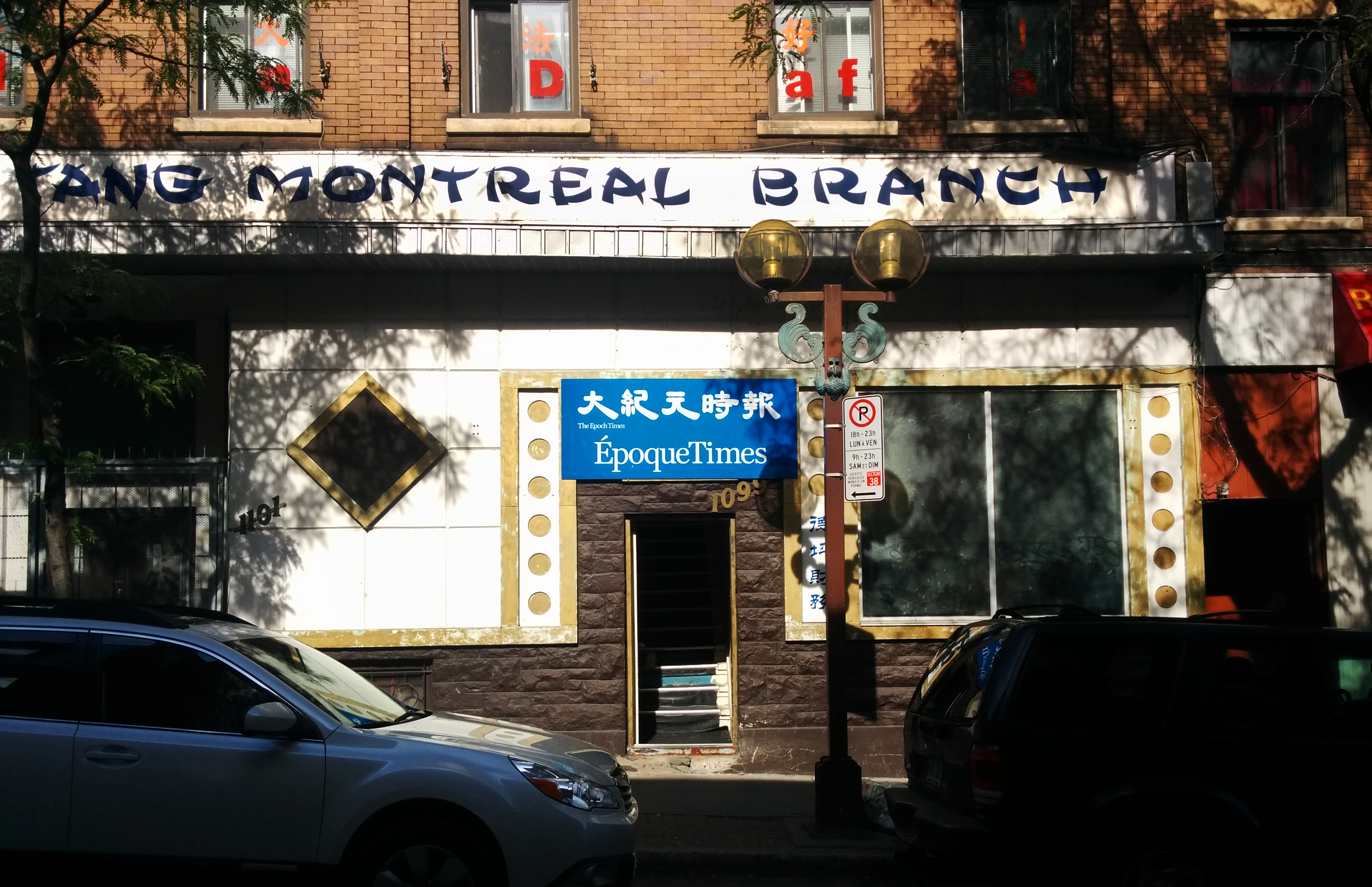 Époque Times (Epoch Times) & Association Falun Dafa Montreal, 1099 Clark St., Montreal. Kuo Min Tang Montreal Branch / Kuomintang Chinois du Canada (Branche de Montréal) Inc., 1101 Clark St., Montreal. 21 Sept. 2015.